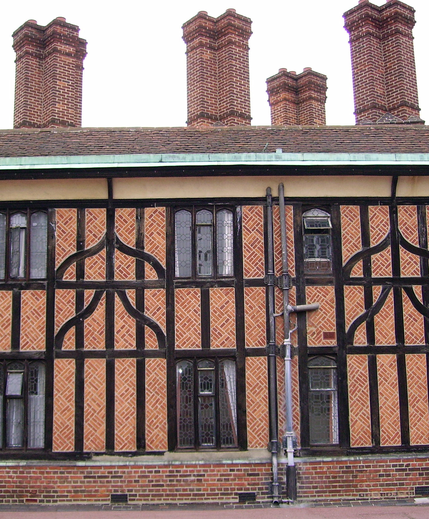 Windsor Castle in Windsor, United Kingdom